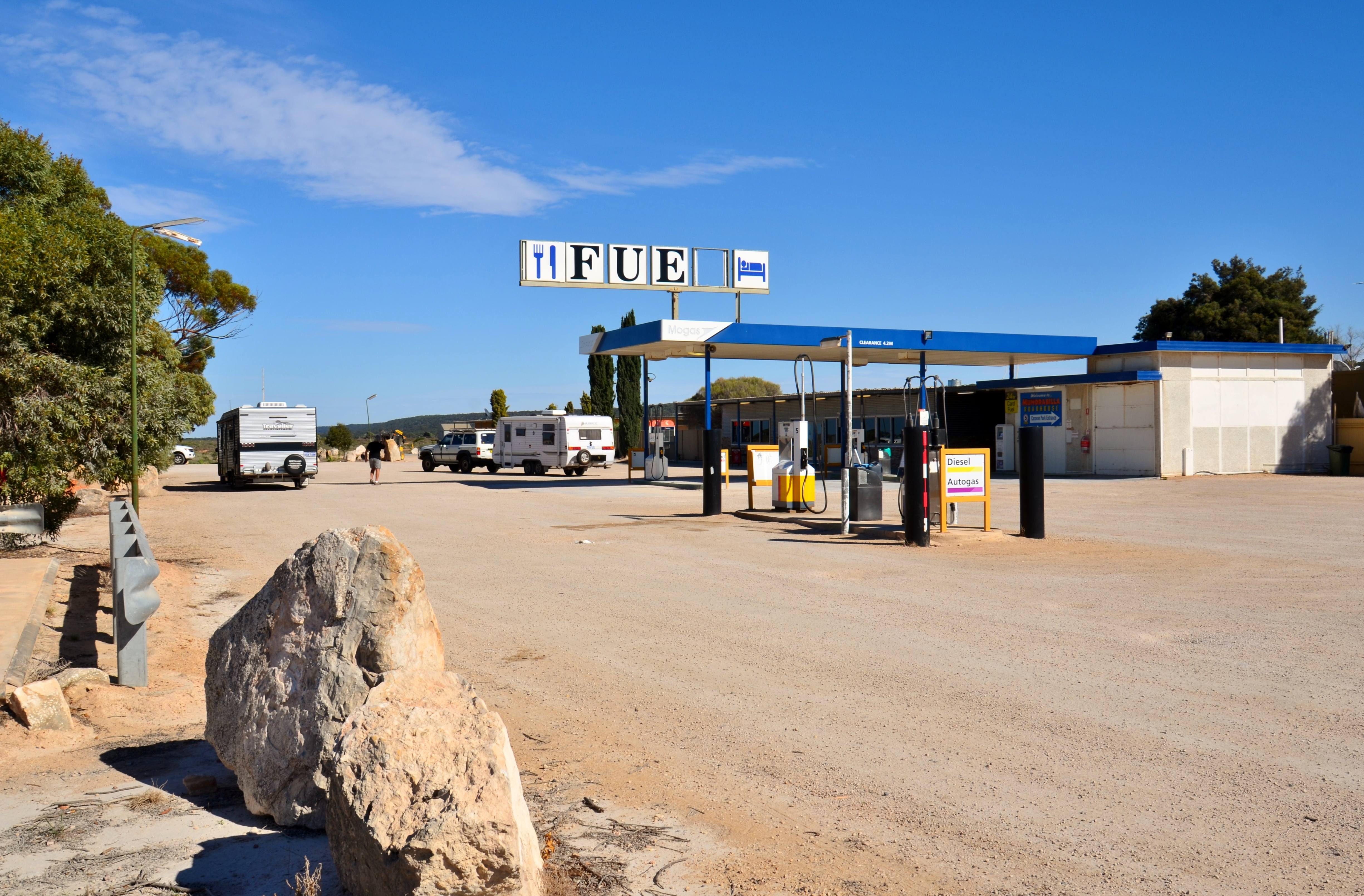 View of the roadhouse at Mundrabilla, Western Australia.